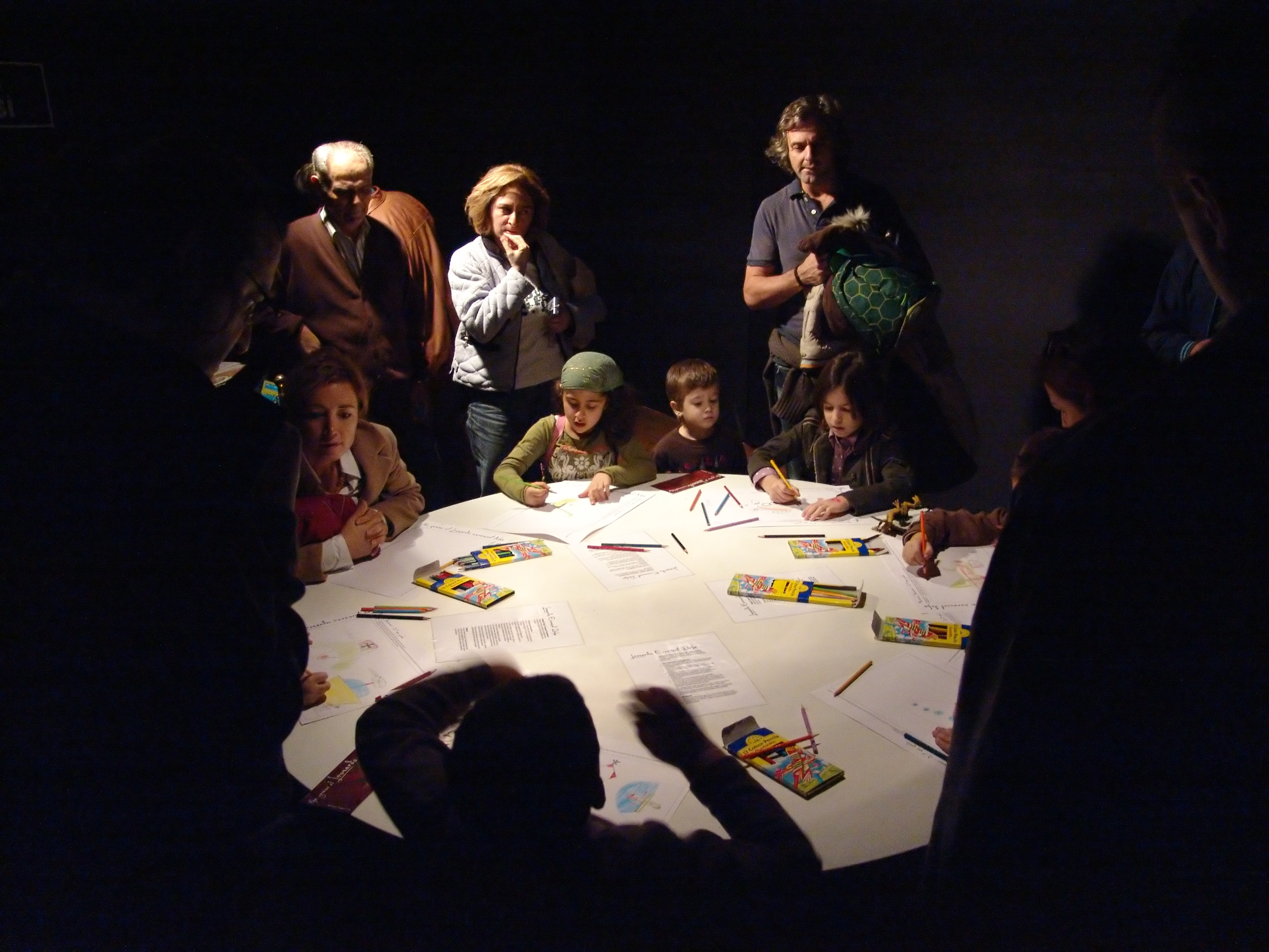 Children Painting